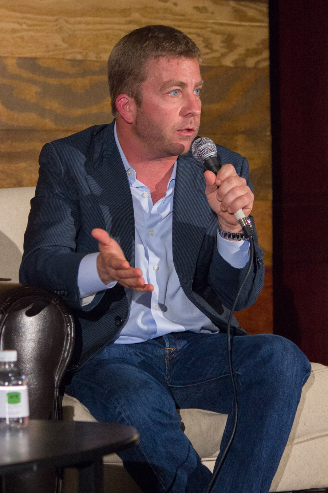 Actor Peter Billingsley at the ATX TV Festival 2014 for the TV show "Sullivan and Son"